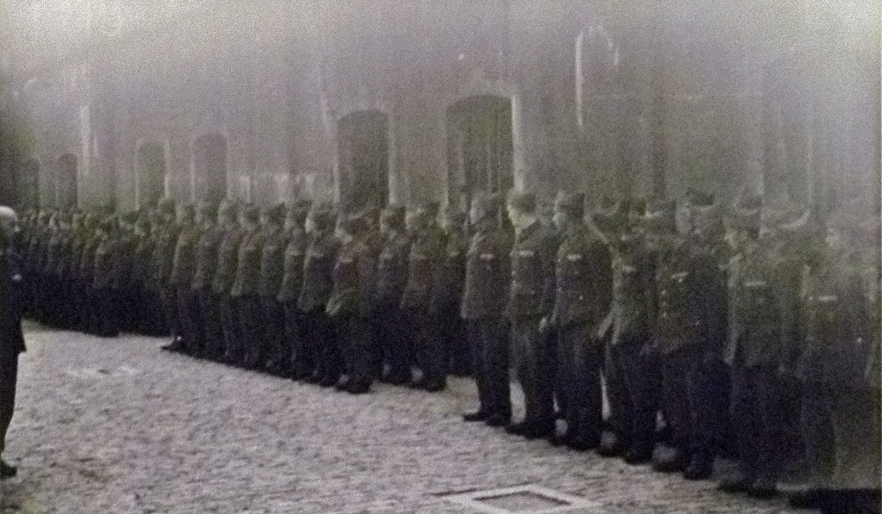 Prisoners at the Breendonk transit camp gather for roll call